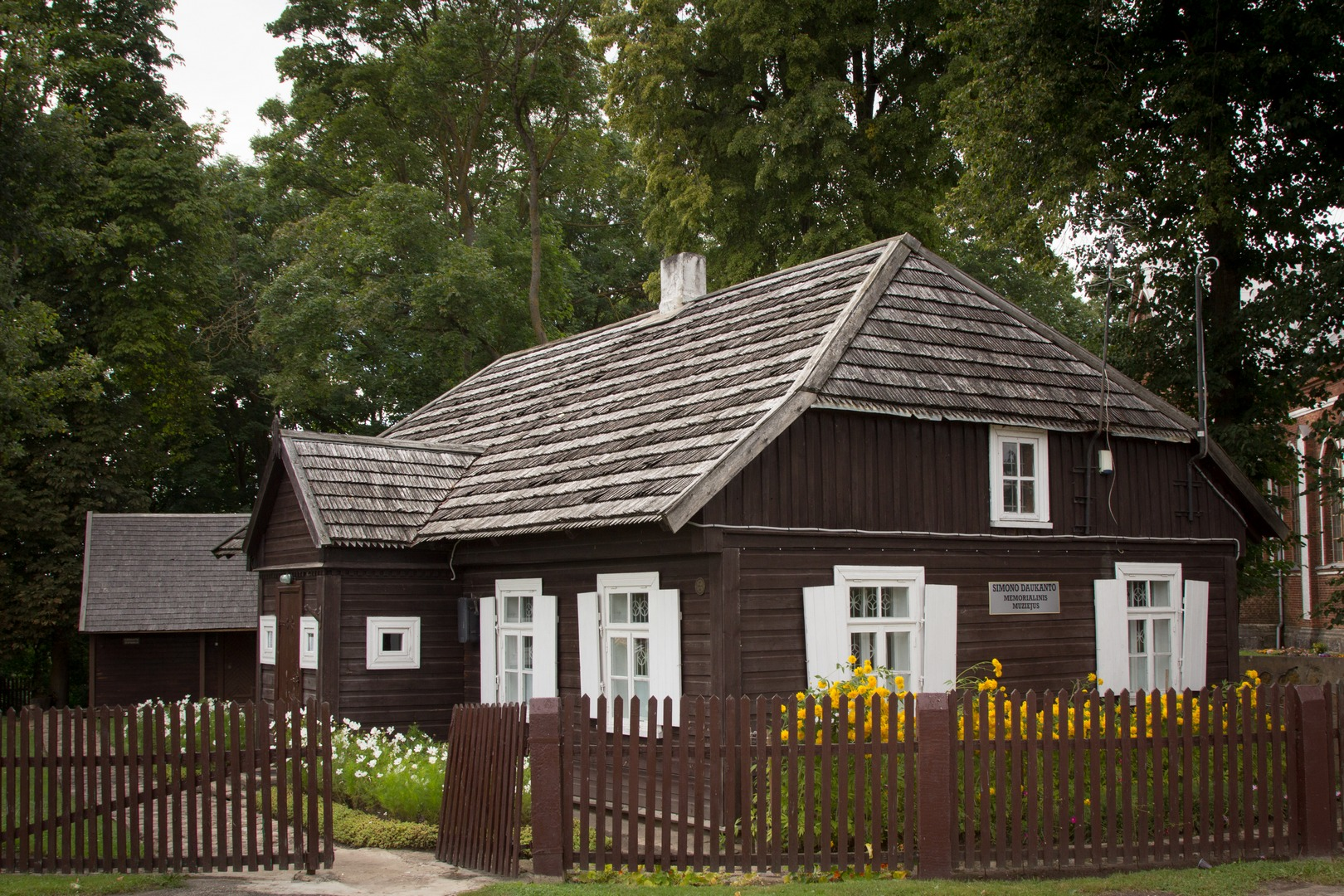 Simonas Daukantas memorial museum (2013)